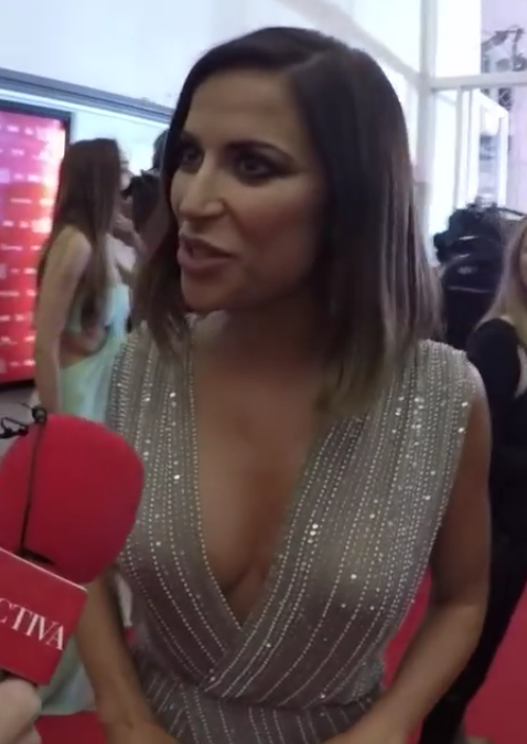 Dânia Neto (b. 1983), Portuguese actress and model, in the Lisbon Coliseum during the XXII Portuguese Golden Globes, on 21 May 2017.